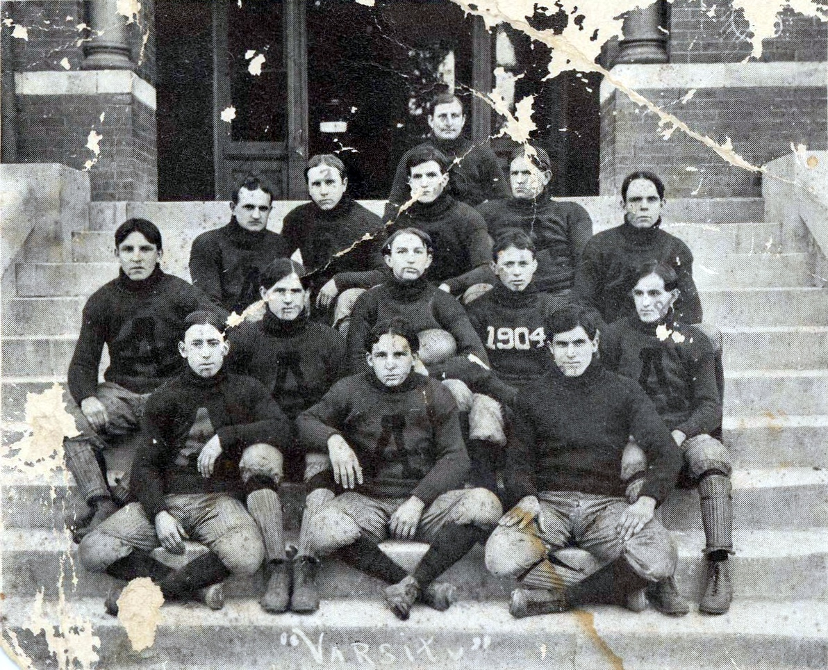 This image is a black and white photograph of the 1904 Alabama Polytechnic Institute (now Auburn University) varsity football team. The postcard has the names of players Street, (William Pitt) Moon, (William Humphrey) Foy, (John Haygood Paterson) "Little Pat", (Henry Clarence) "Runt" Perkins, (Josiah) Flournoy, (Edward Philip) Lacy, (Randolph Smith Reynolds) Rendler, and (Michael J.) Donahue written on it.